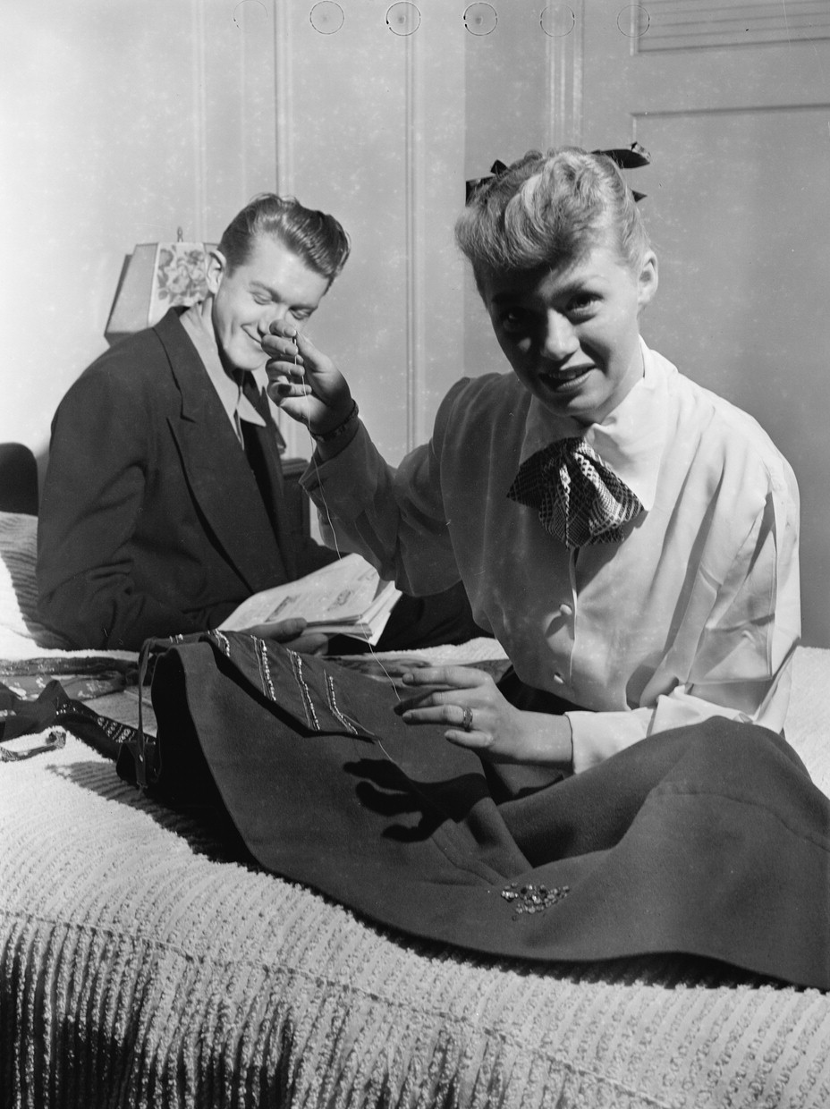 Bob Cooper and June Christy. Photography by William P. Gottlieb, between 1947 and 1948